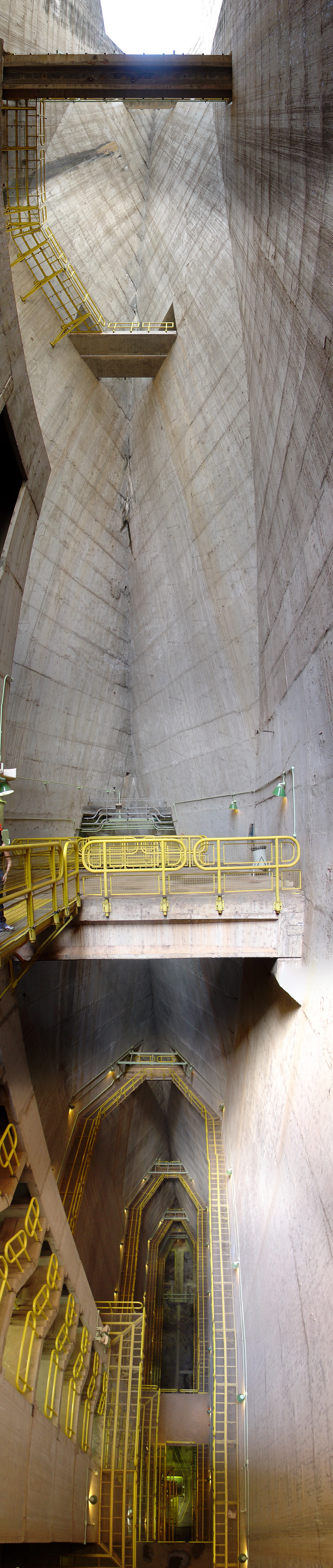 Please, have this description accessible to all by translating it in different languages.